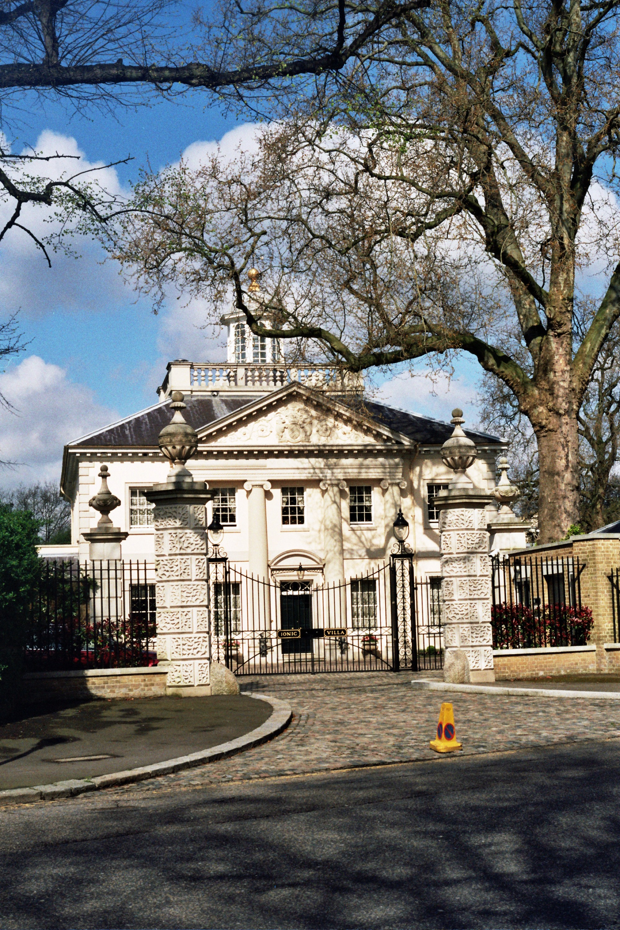 Quinlan Terry's Regent's Park villas are six large detached villas on the north-western edge of London's Regent's Park designed by the English Neo-Classical architect Quinlan Terry between 1988 and 2004. Terry designed each house in a different classical style, intended to be representative of the variety of classical architecture, naming them the Veneto Villa, Doric Villa, Corinthian Villa, Ionic Villa, Gothick Villa and the Regency Villa respectively.